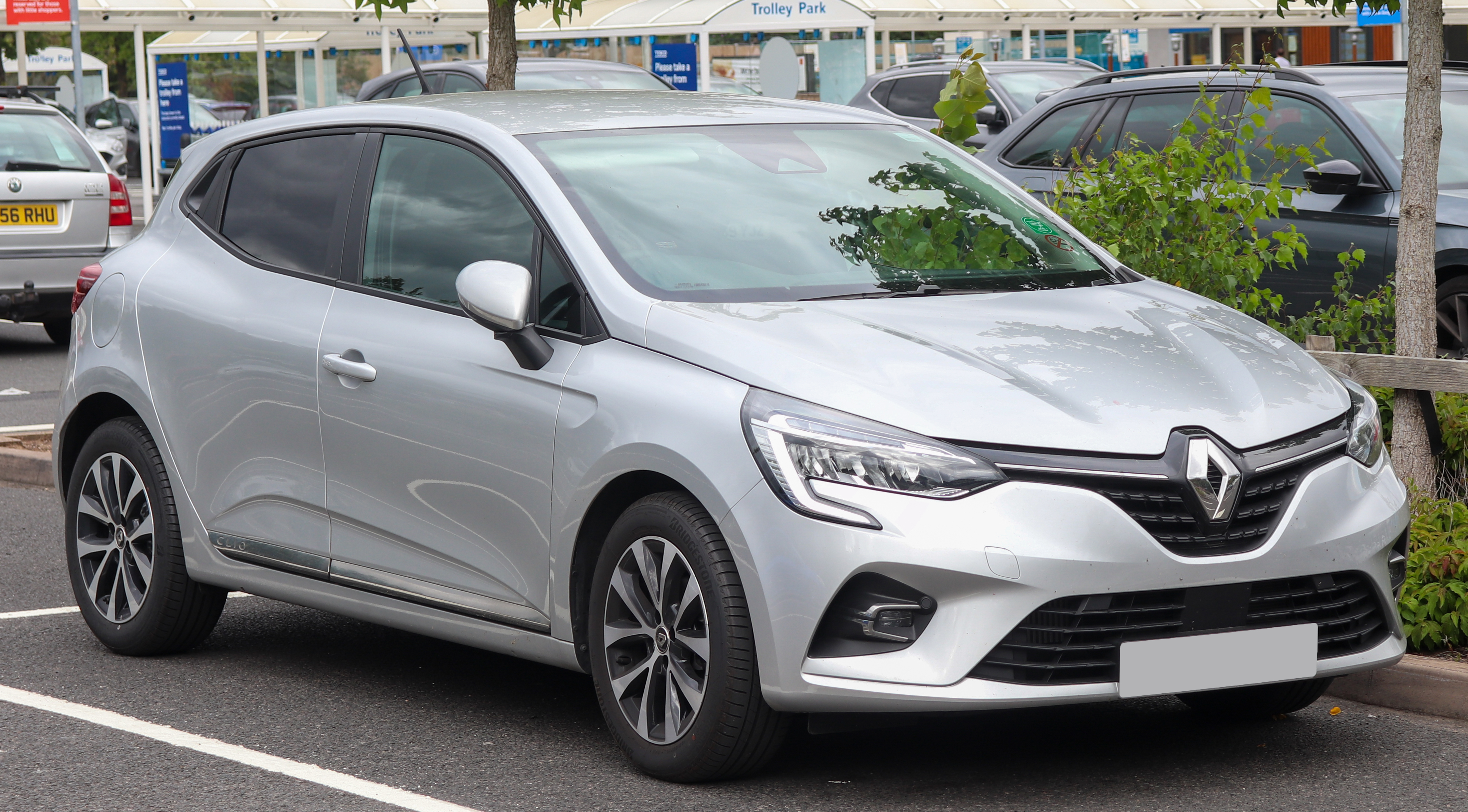 2019 Renault Clio Iconic TCE 1.0 Front Taken in Warwick